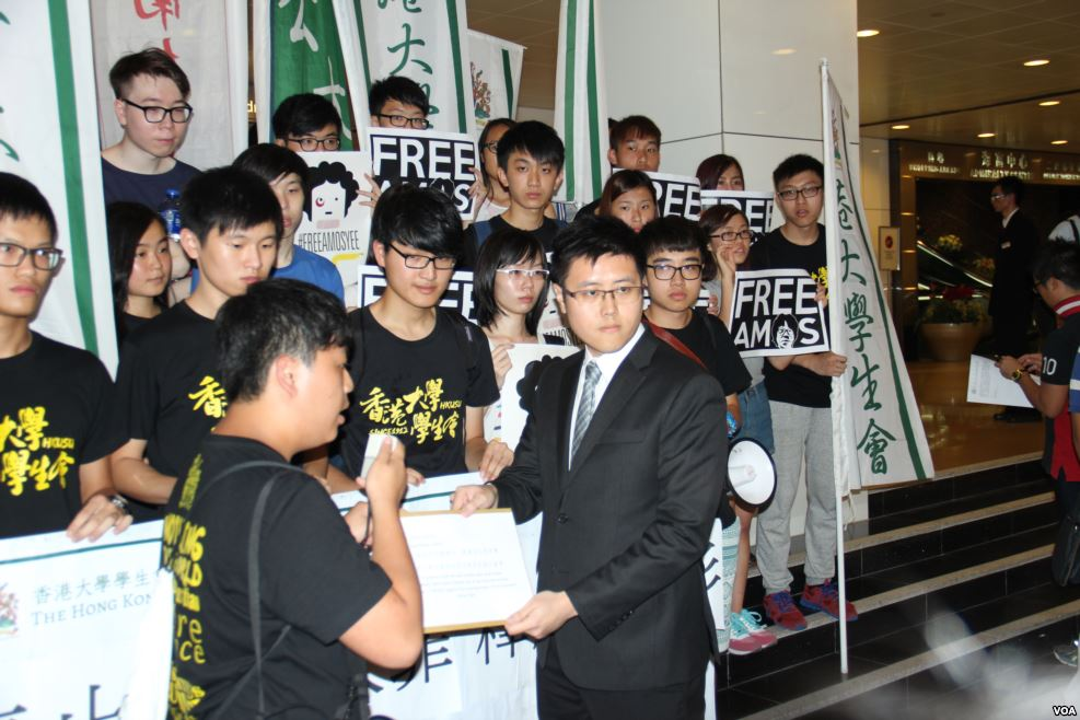 Free Amos Yee